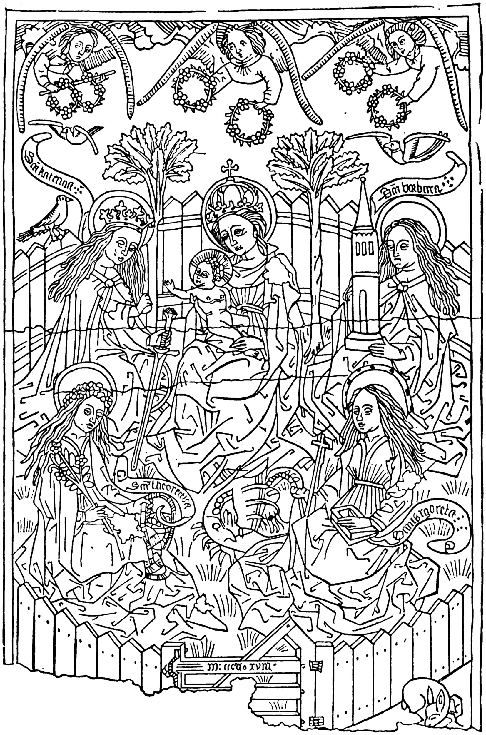 The Brussels Madonna, showing the Virgin and Christ child with the four virgin-martyr saints in an enclosed garden. This 19th-century line drawing represents what was once thought to be the earliest dated woodcut print, which is held in the Bibliothèque Royale de Belgique. The date has been questioned, and the print is thought to be from around 1460. The cult of the Quatuor Virgines Capitales was popular in the 15th century, and depictions were common. Clockwise from top-left: Catherine of Alexandria, with the executioner's sword and fragment of the torture wheel; Virgin Mary with Christ child; Barbara with three-windowed tower; Margaret of Antioch, with her crucifix and slain dragon; and Dorothea, with her crown of roses, roses in hand, and basket of roses.